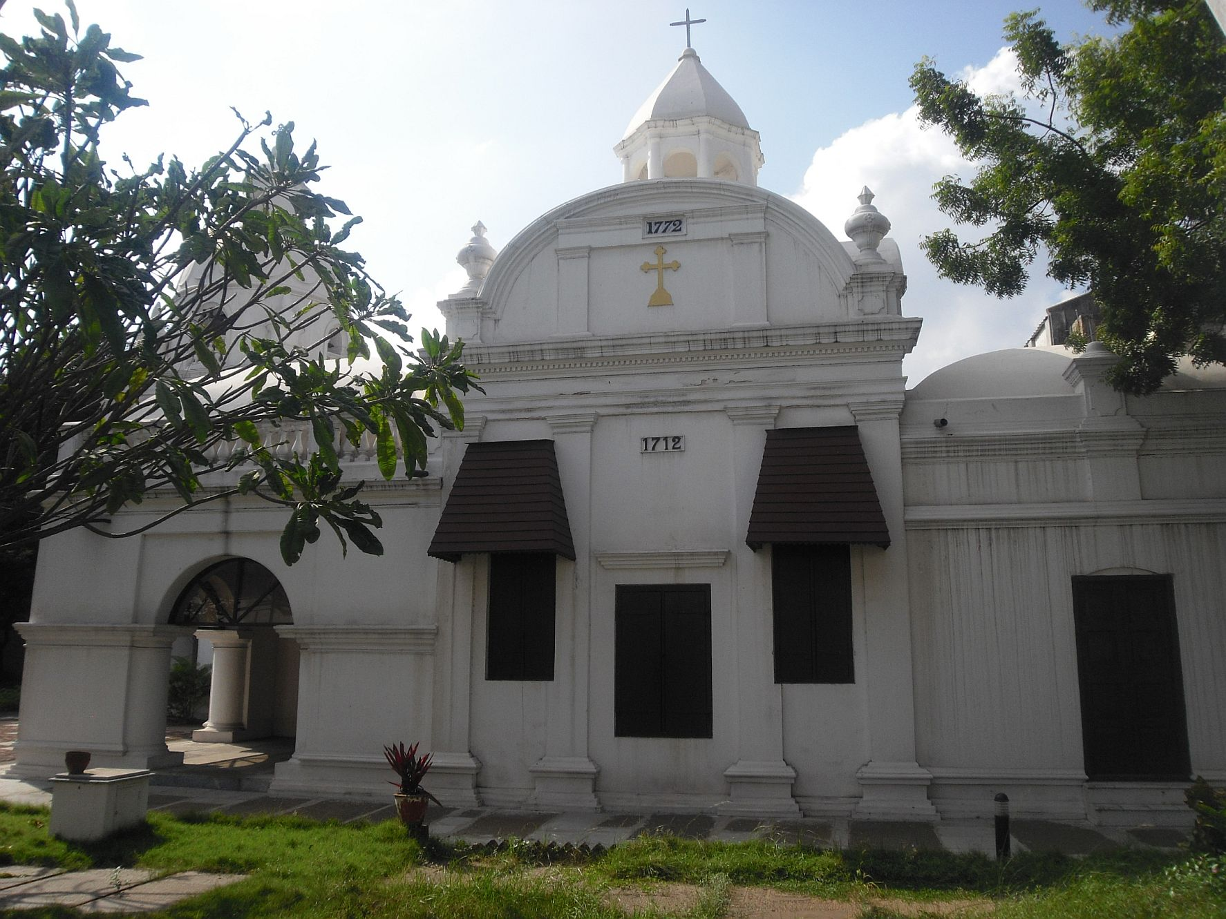 Armenian Church Madras/Chennai India